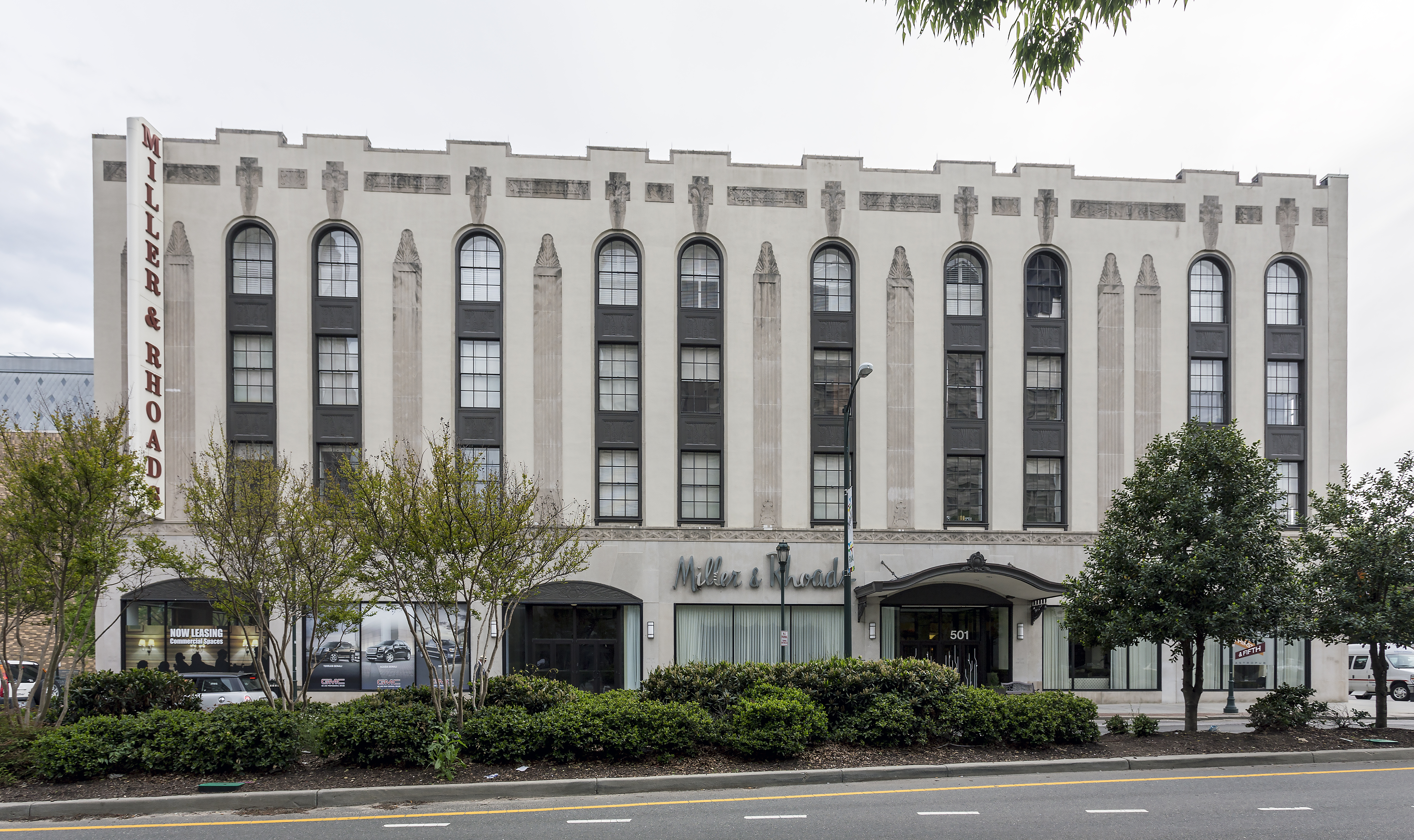 The former Miller & Rhoads store at 501 Broad Street in Richmond, Virginia, USA. The building now houses a hotel and condominiums.